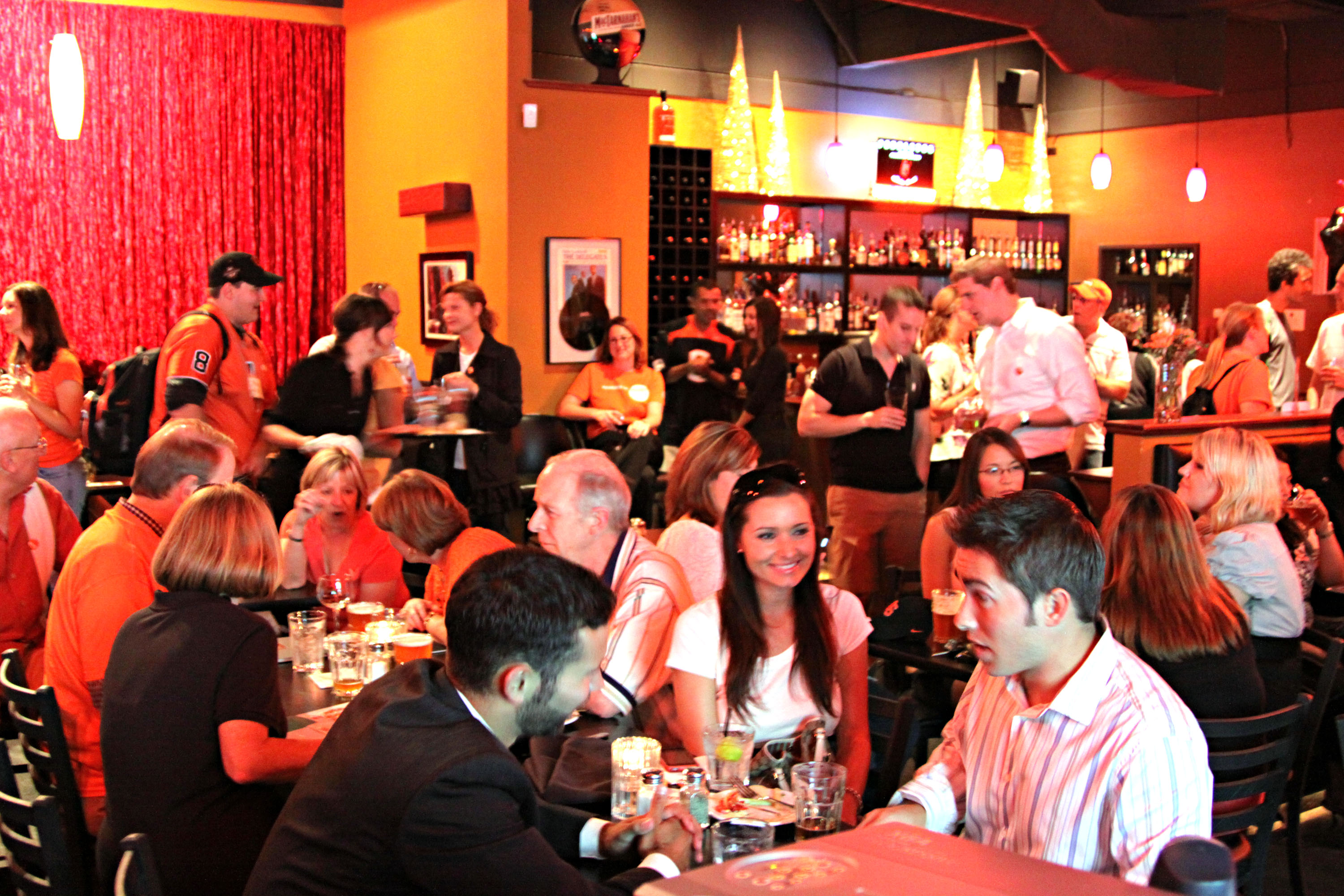 A number of OSU alums gathered at the Portland jazz club Jimmy Mak's for a celebration. Date: Sept. 21, 2009 (photo by: Larry Pribyl)